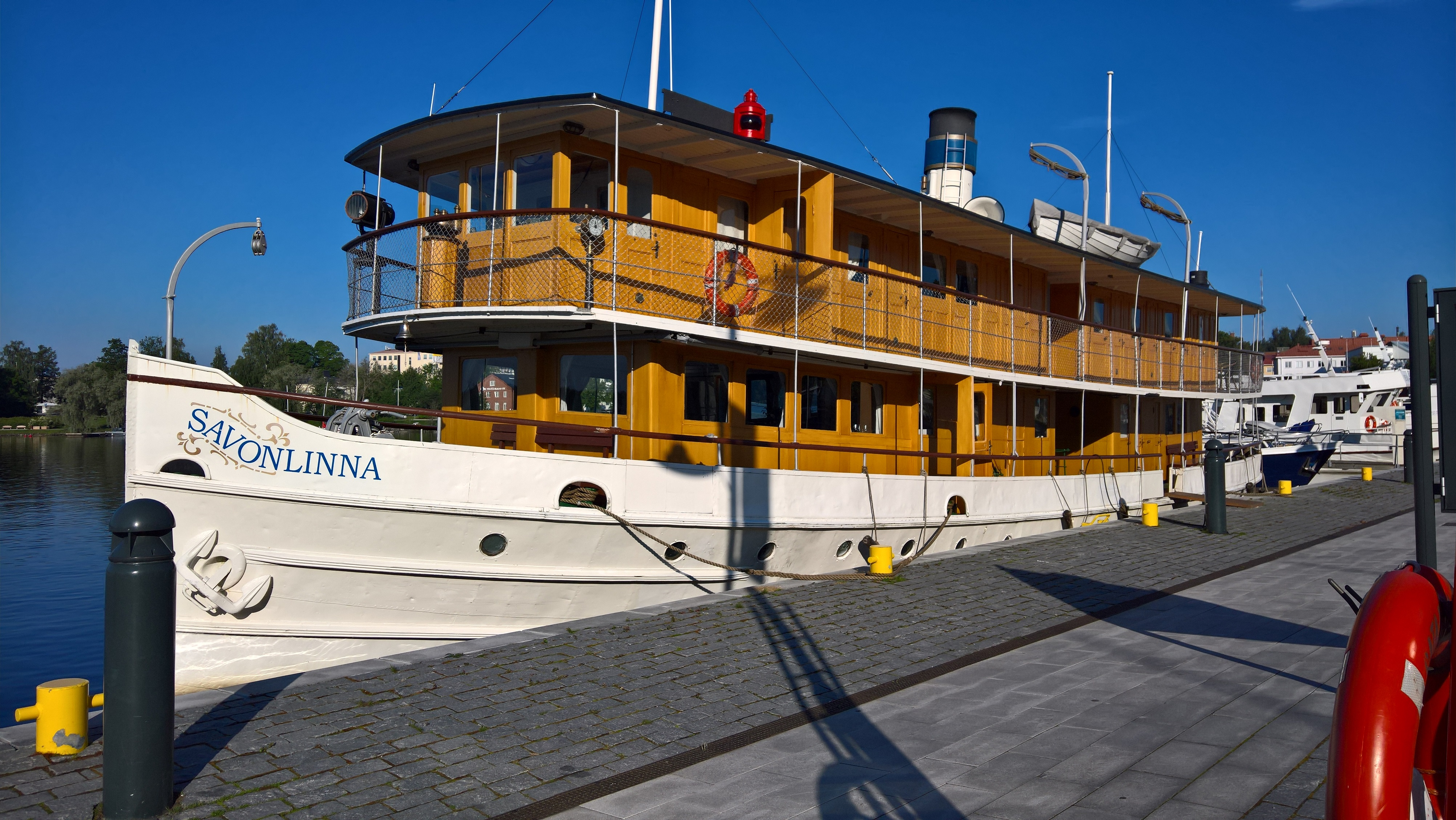 S/S Savonlinna (Savonlinna harbour 2016)